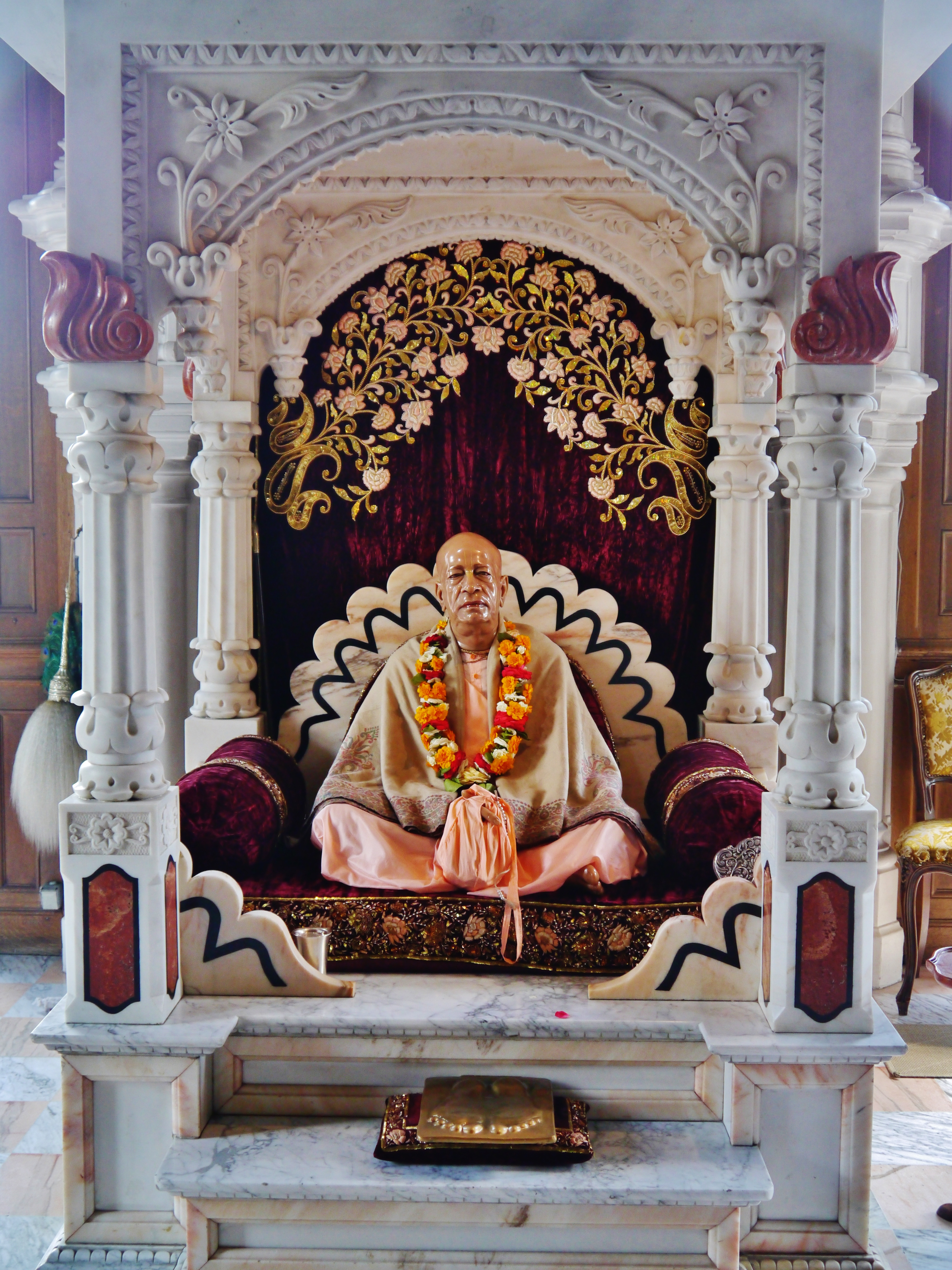 Srila Prabhupada at the Prayer Room of the New Mayapur Temple (former Oublaise Castle), Luçay-le-Mâle, Department of Indre, Region of Centre-Loire Valley, France